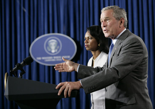 United States of America President George W. Bush delivers a statement on the Middle East crisis with Secretary of State Condoleezza Rice. See Rice answering press questions.